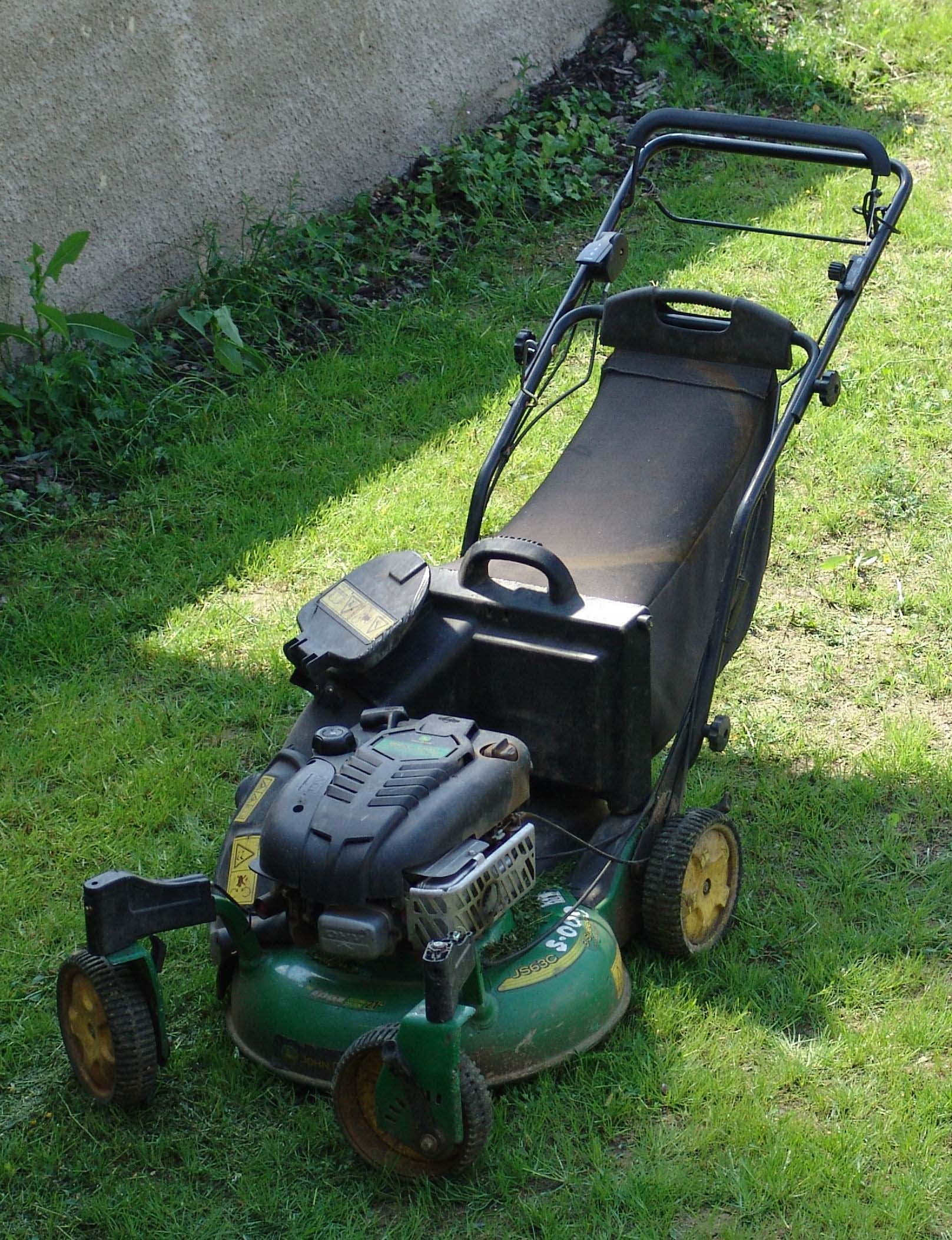 John Deere JS63C lawn mower